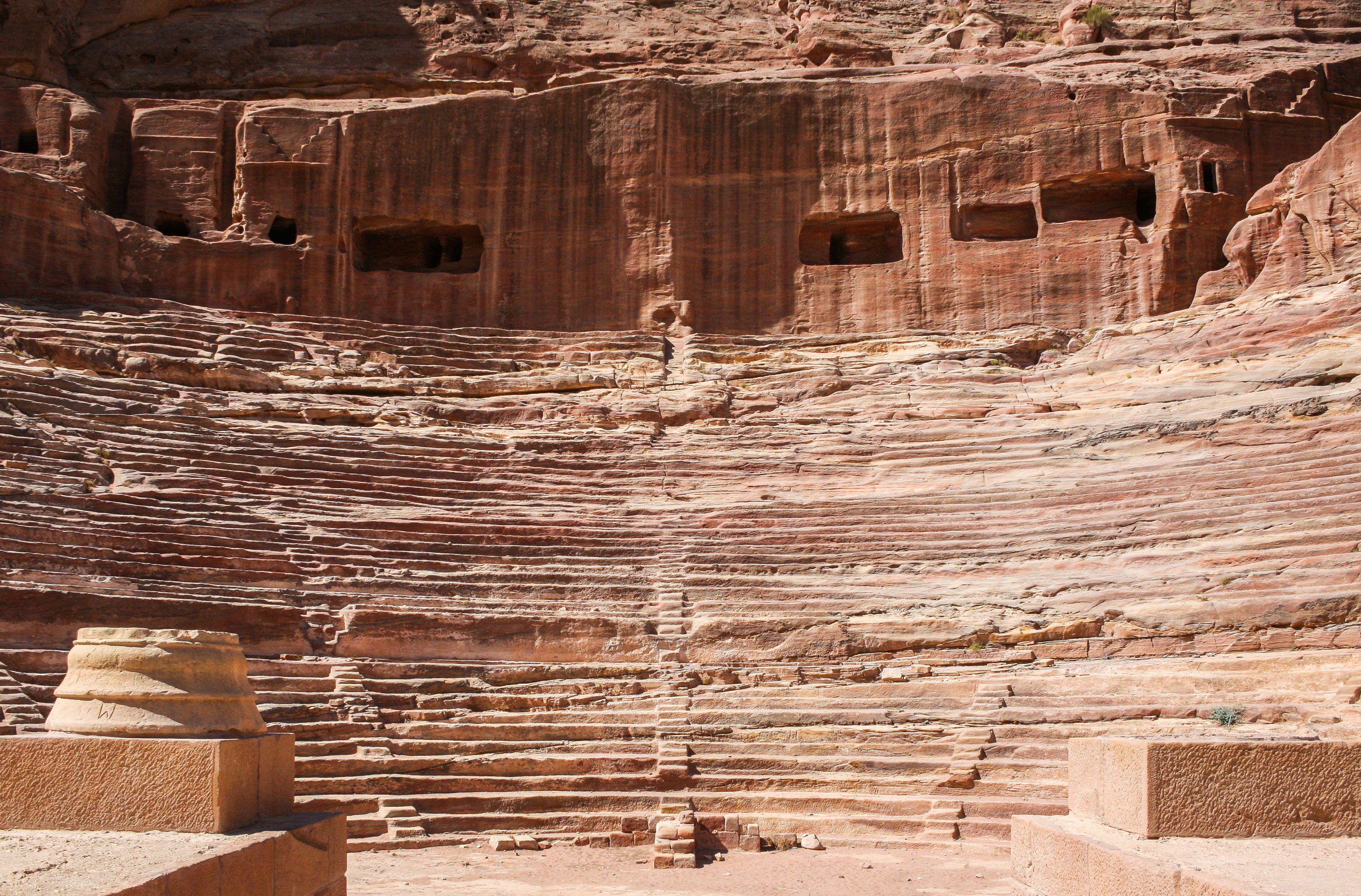 Amphitheatre, Petra, Jordan